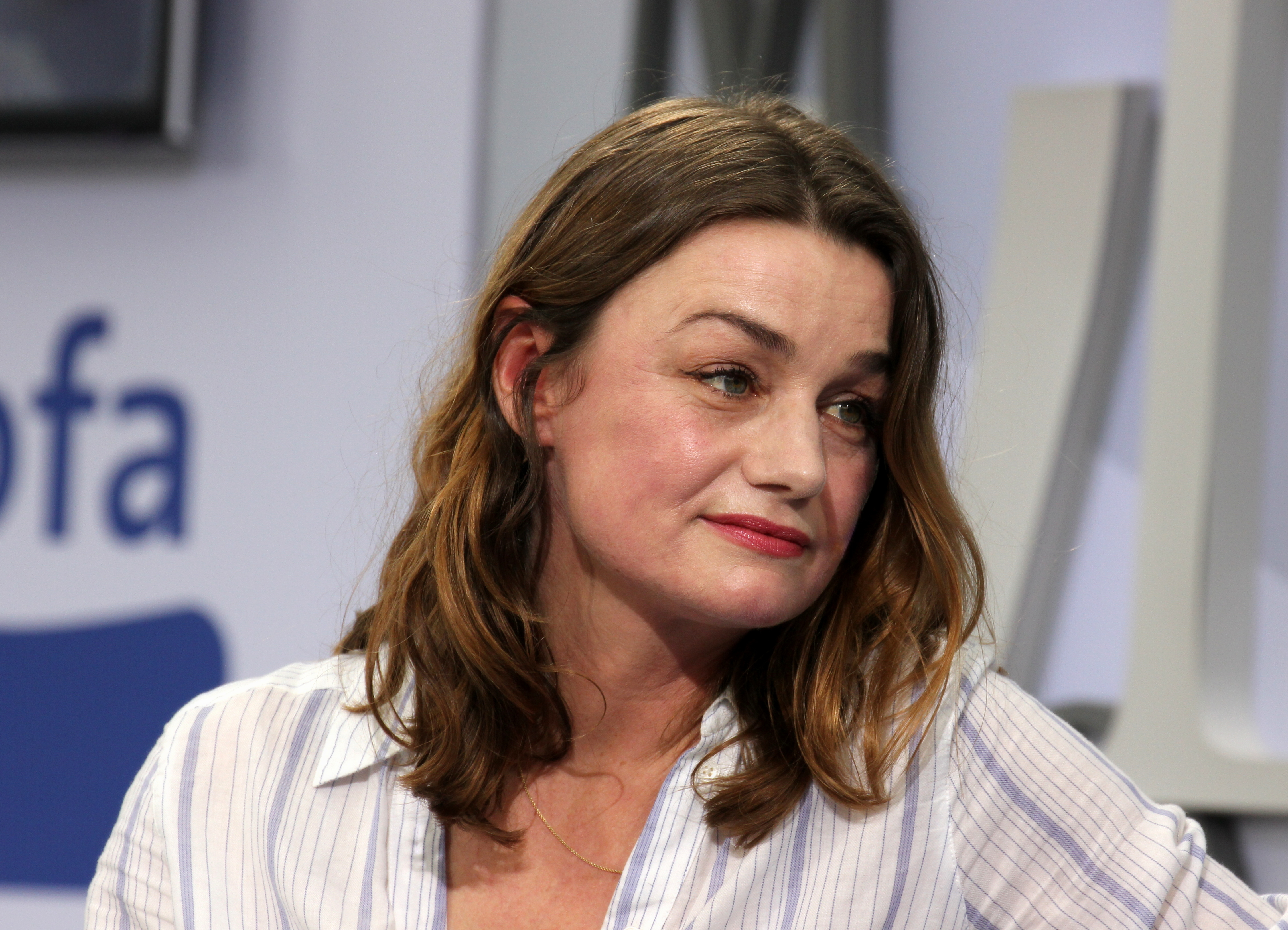 Johanna Adorján at Leipzig Book Fair 2016